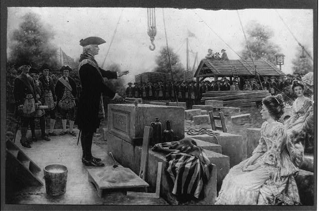 Photographic reproduction of a painting showing George Washington, with gavel on cornerstone marked "1793", addressing crowd at cornerstone laying ceremony.